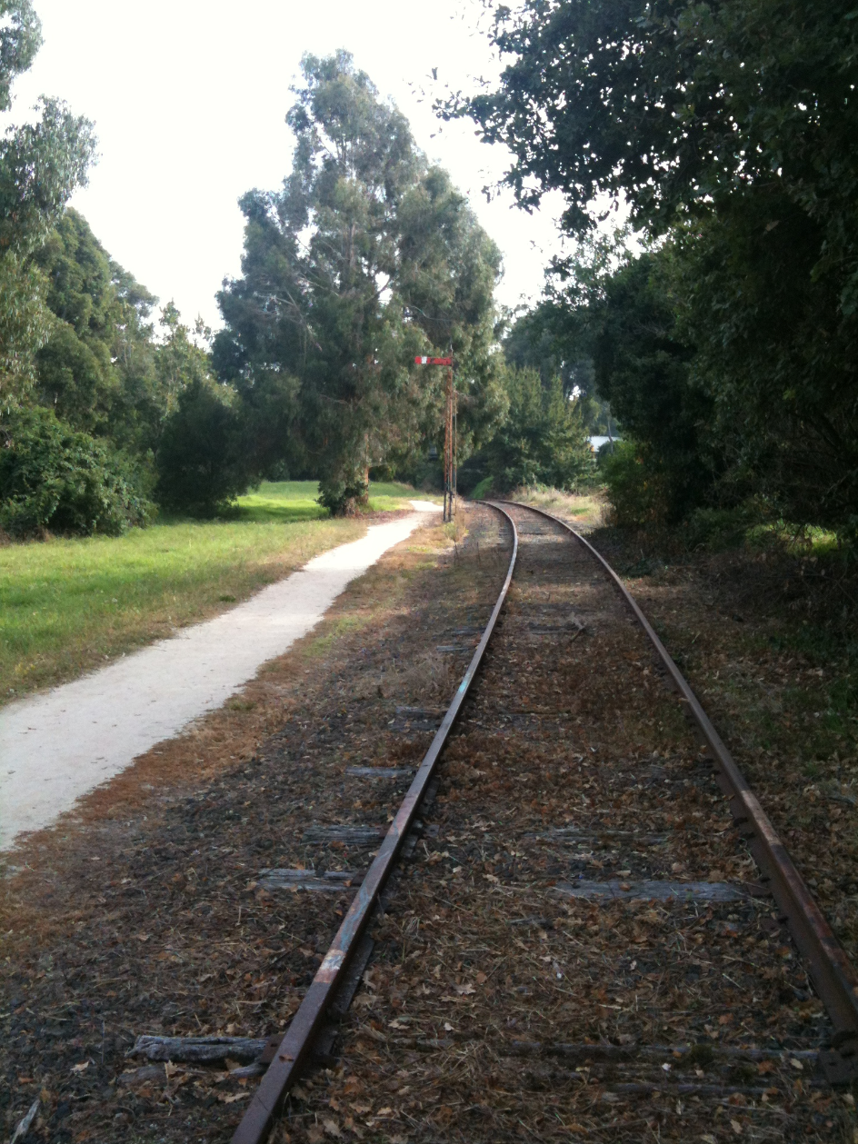 The beginning of the Great Southern Rail Trail in Leongatha, Victoria along with a section of the disused track.